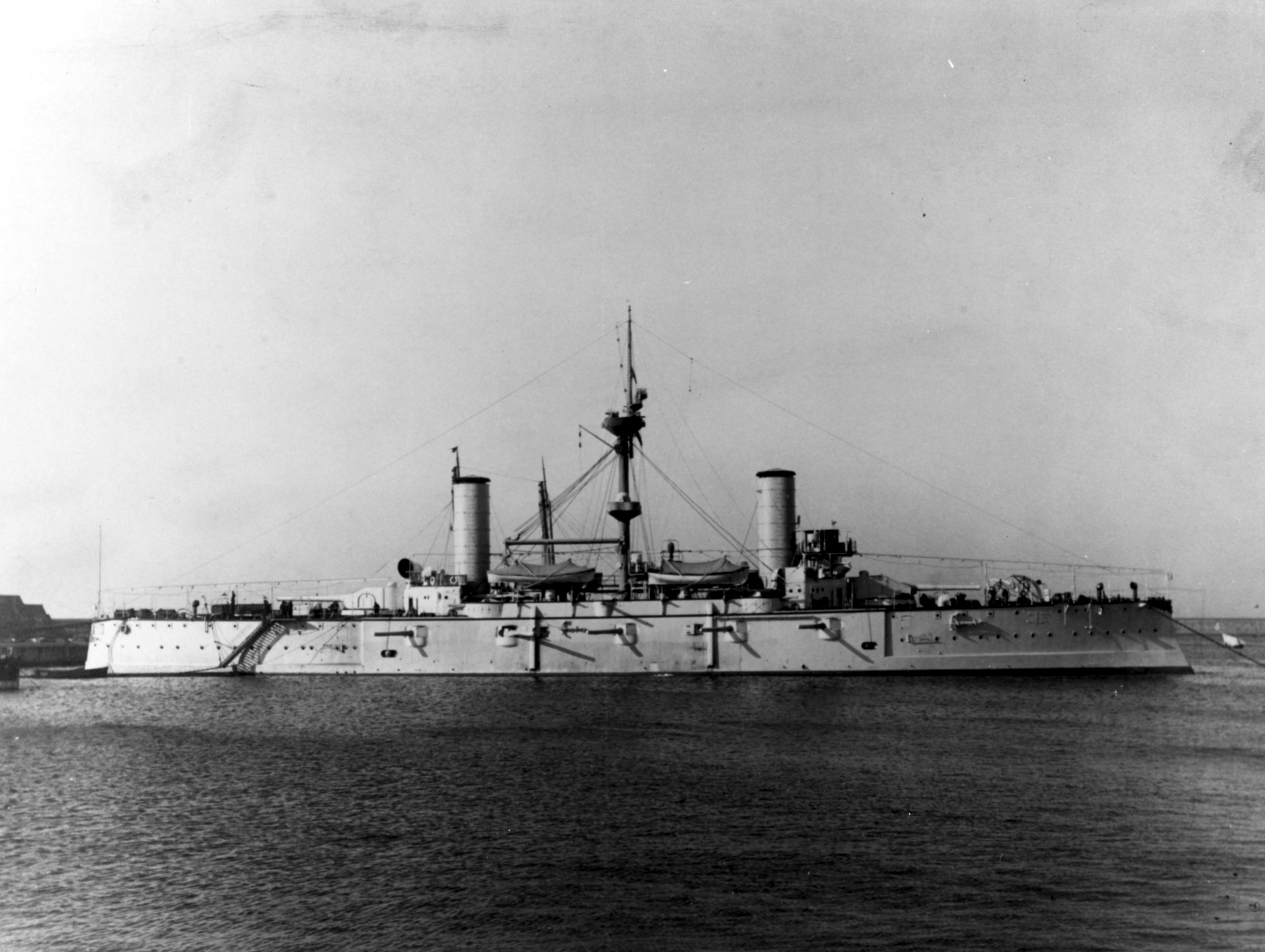 Title: GARIBALDI (Italian Armored Cruiser, 1895-1935) Caption: Photographed by A. Noack of Genoa, probably at Naples or Genoa prior to her departure for Argentina. Note that the ship does not appear to be flying any flags.)